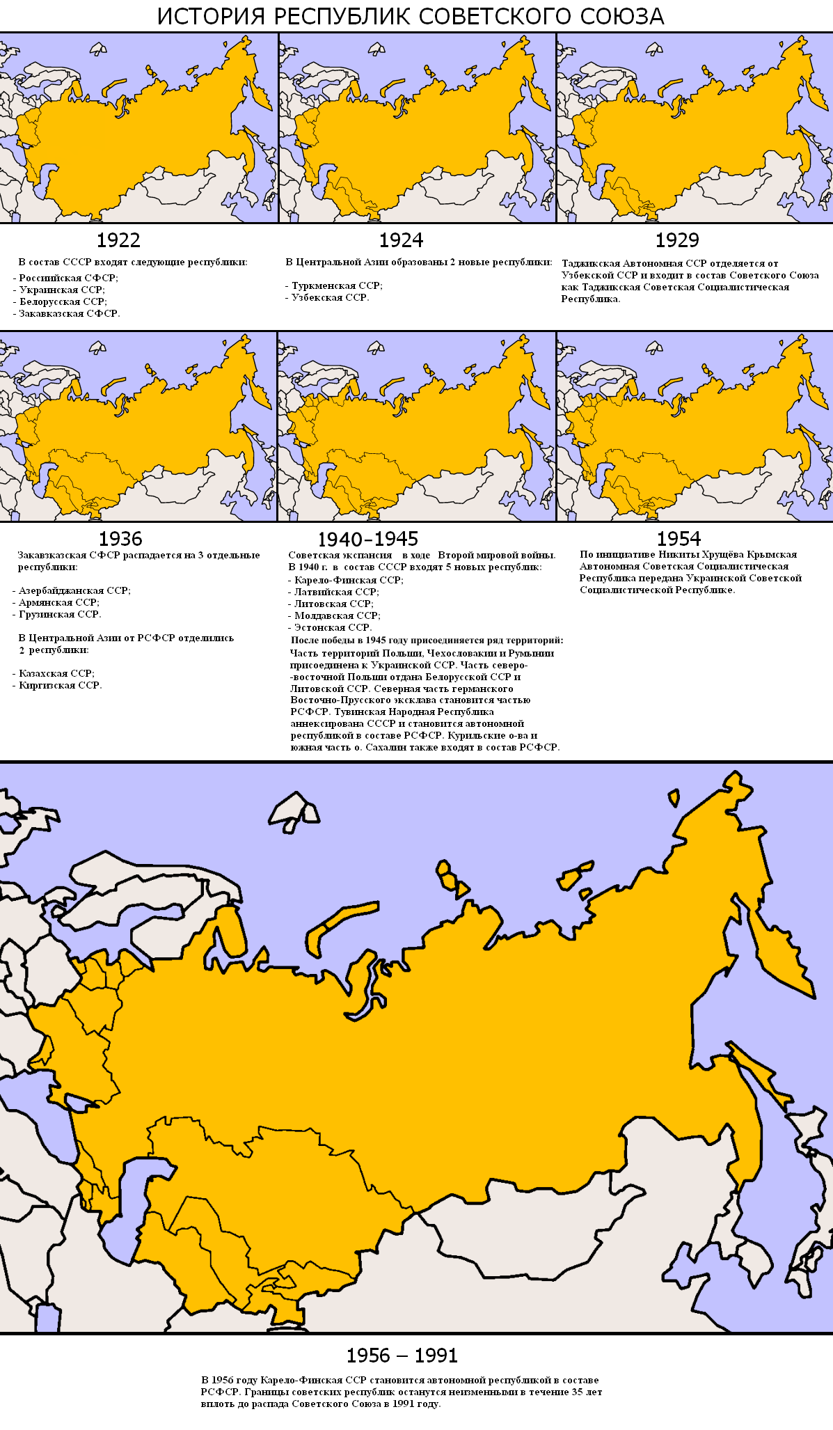 Evolution of Soviet Republics (in Russian)